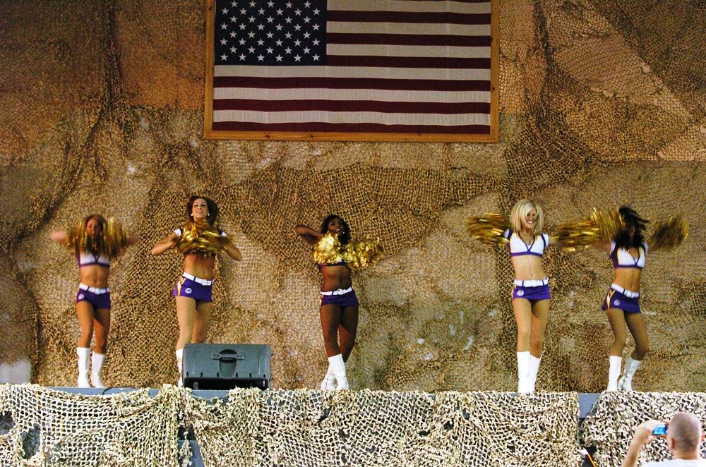 Minnesota Viking cheerleaders Jessie, Sarah, Amanda, Peyton and Bailey perform a dance routine during the Viking cheerleaders’ tour at Bagram Airfield, Afghanistan, May 19. The ladies visited BAF with a promise to give their all and to help pump up the spirits of deployed servicemembers.